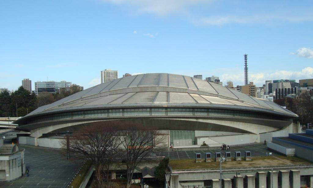 Tokyo Taiiku-kan